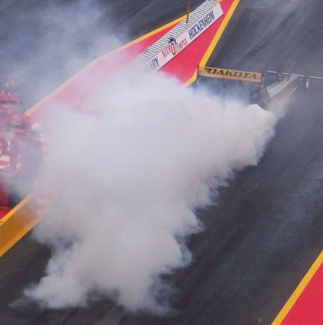 Burn out